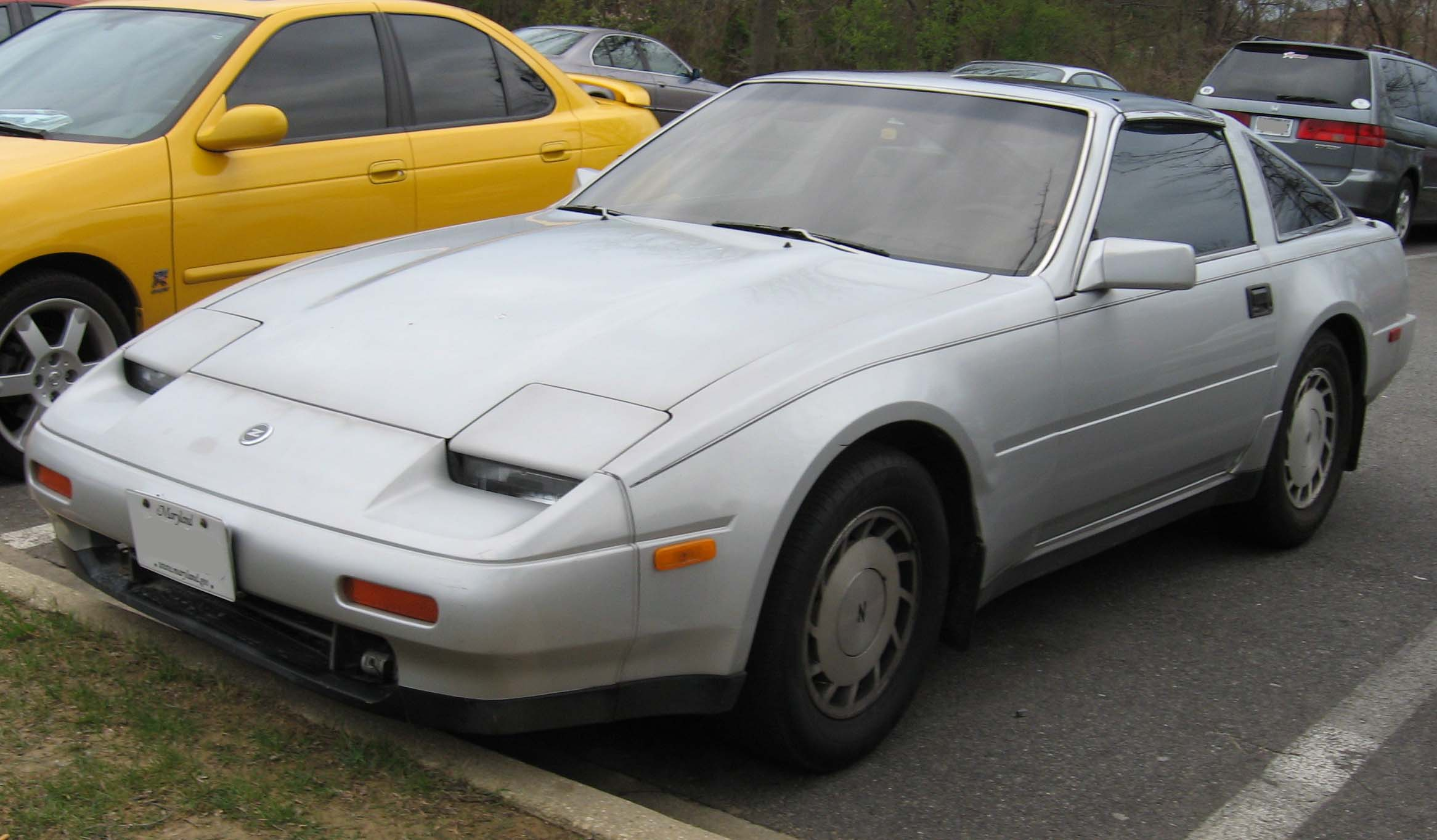 1983-1989 Nissan 300ZX photographed in USA.